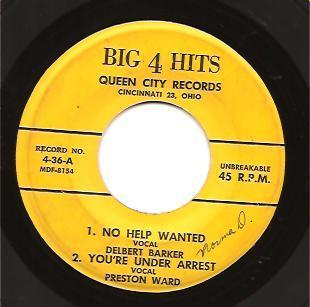 No Help Wanted by Delbert Barker and You're Under Arrest by Preston Ward, Big 4 Hits 1953. No Help Wanted was originally recorded by Bill Carlisle.